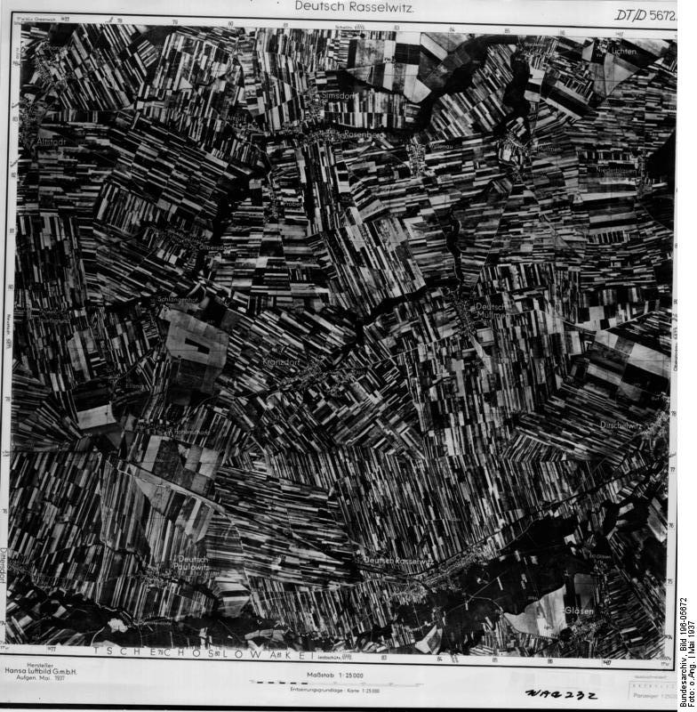 Deutsch Rasselwitz Information added by Wikimedia users. Poland: Racławice Śląskie